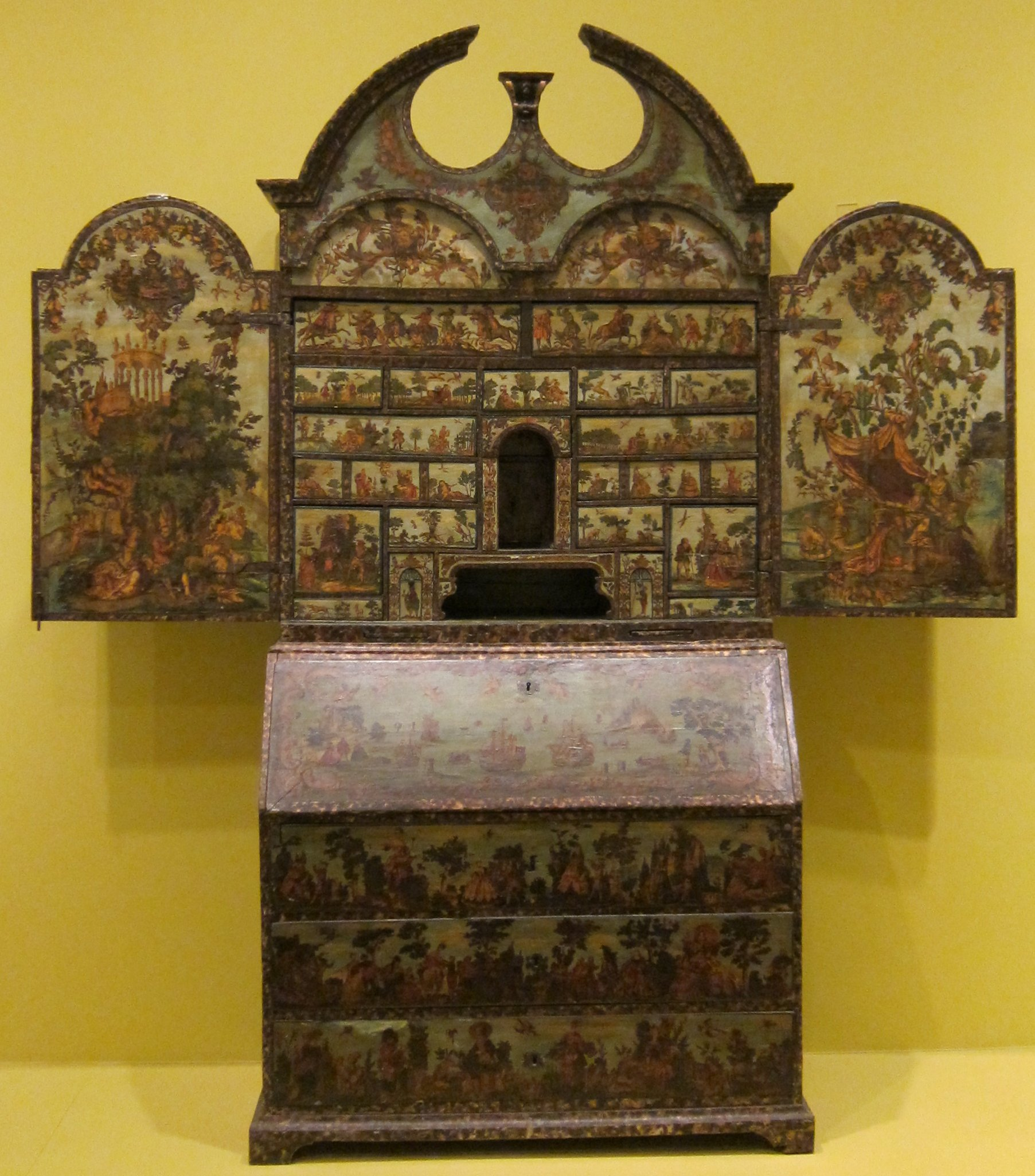 18th century secretary (fall-front writing cabinet on a chest-of-draws) from Venice, lacca contrafatta (imitation lacquer with applied engravings as decoration), Honolulu Academy of Arts